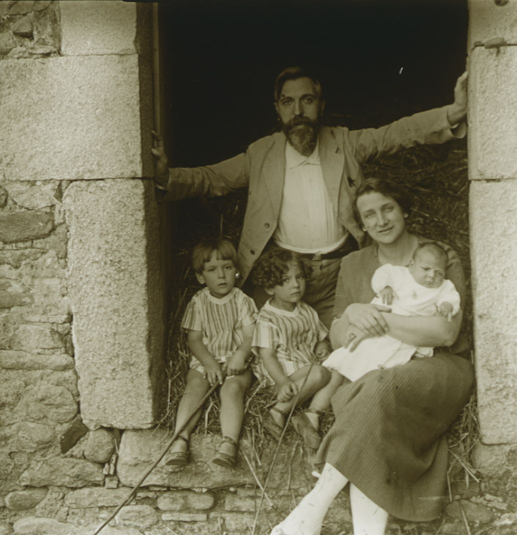 Estada de la família Masó al Mas Bru de Domeny. Retrat de Rafael Masó i Esperança Bru, amb els seus fills Rosa, Francesc i Jordi, a la porta d'un estable del Mas Bru.